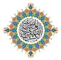 Tareeqah Al Aliyyah Al Qadiriyyah Al Kasnazaniyyah